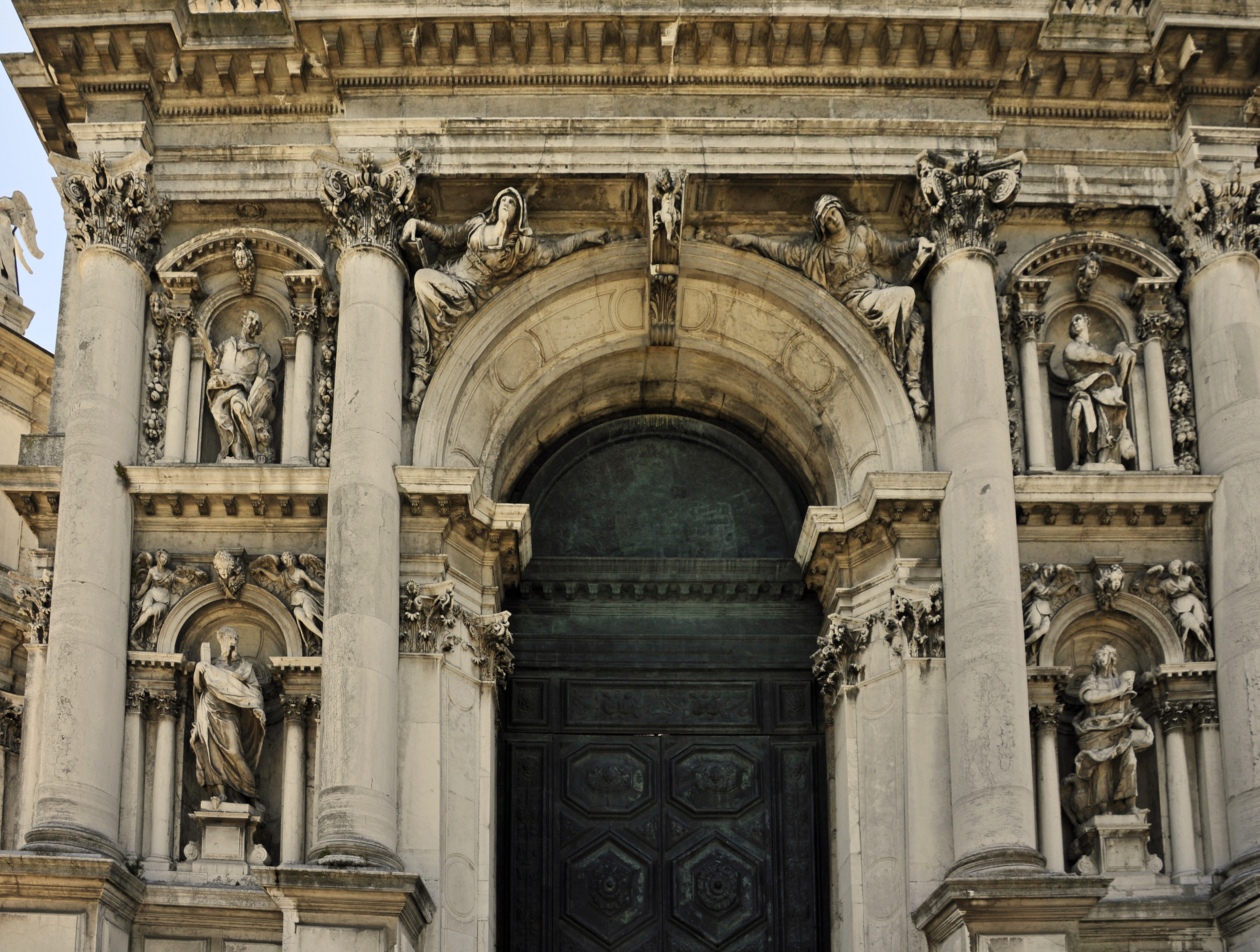 Four Evangelists on the Church Santa Maria della Salute (Venice) by Tommaso Rues